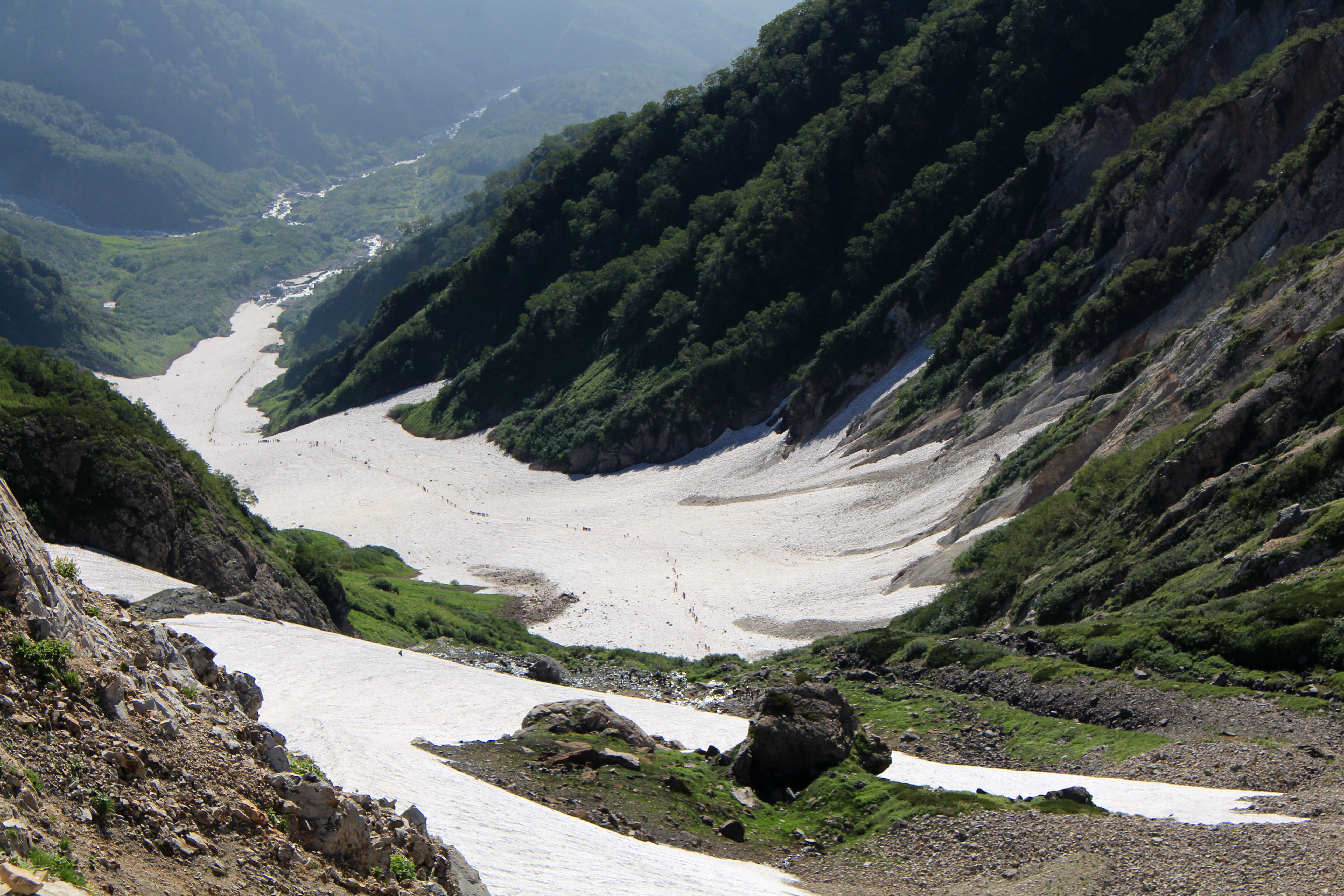 Shirouma dai sekkei seen from Mount Shakushi in Mount Shirouma, Hakuba, Nagano prefecture, Japan.